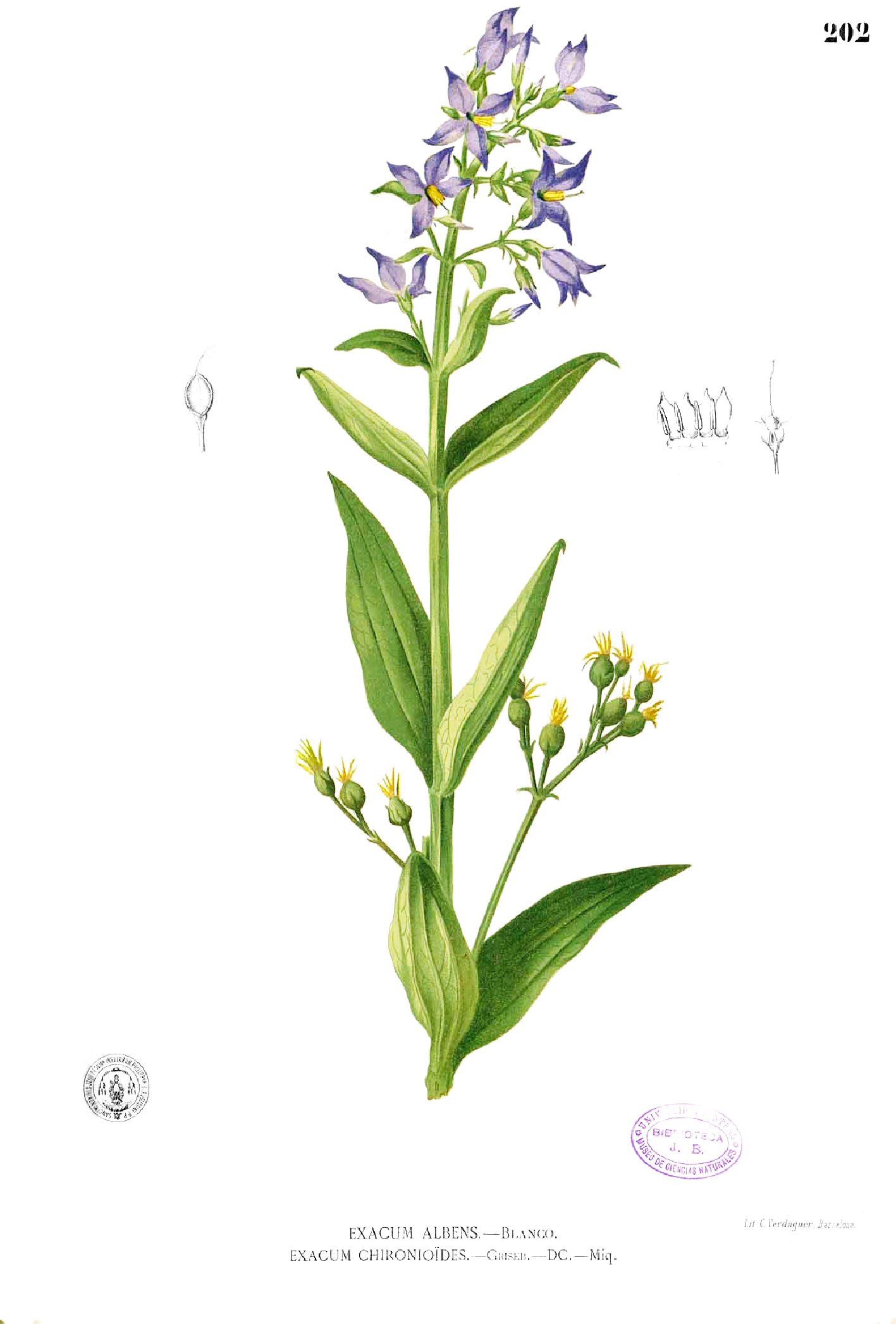 Exacum tetragonum - Plate from book